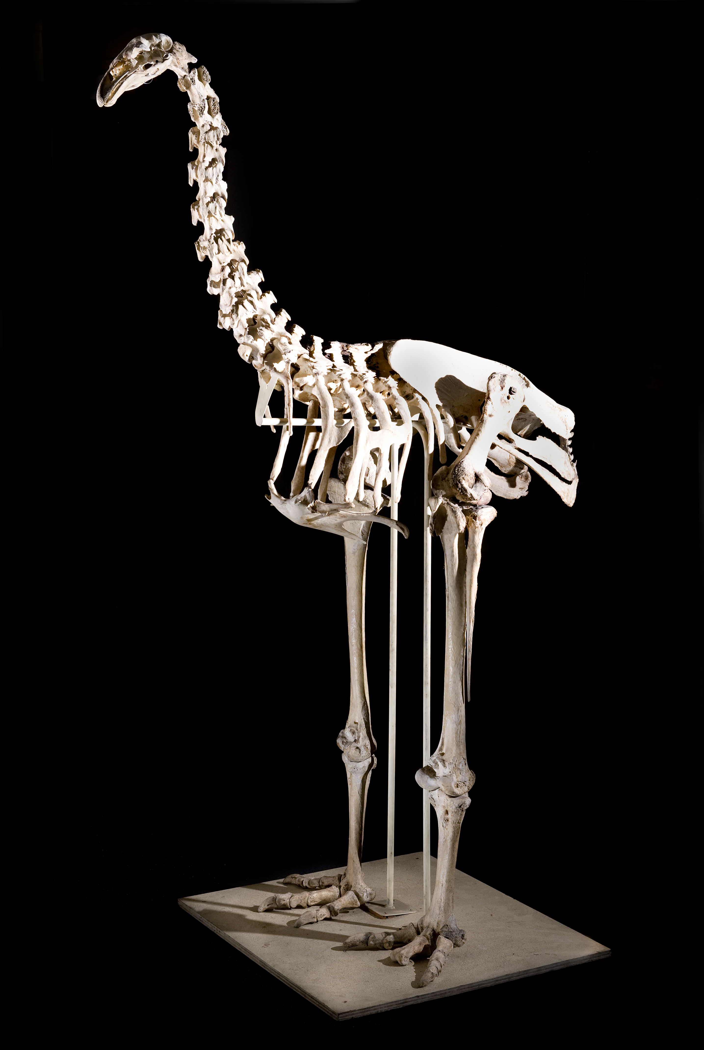 Mounted, articulated skeleton of Dinornis robustus found at Tiger Hill in the Manuherikia Valley, Central Otago in 1864. Now in the Yorkshire Museum collections.